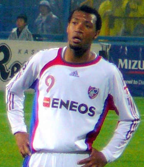 Lucas Severino of FC Tokyo This file has been extracted from another file: Lucas Severino and Sota Hirayama of FC Tokyo (2007).jpg